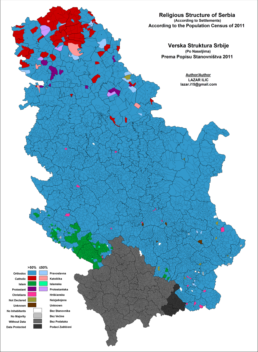 This is an religious map of Serbia, per settlement, according to the 2011 population census. Српски (ћирилица): Ово је верска карта Србија, по насељима.